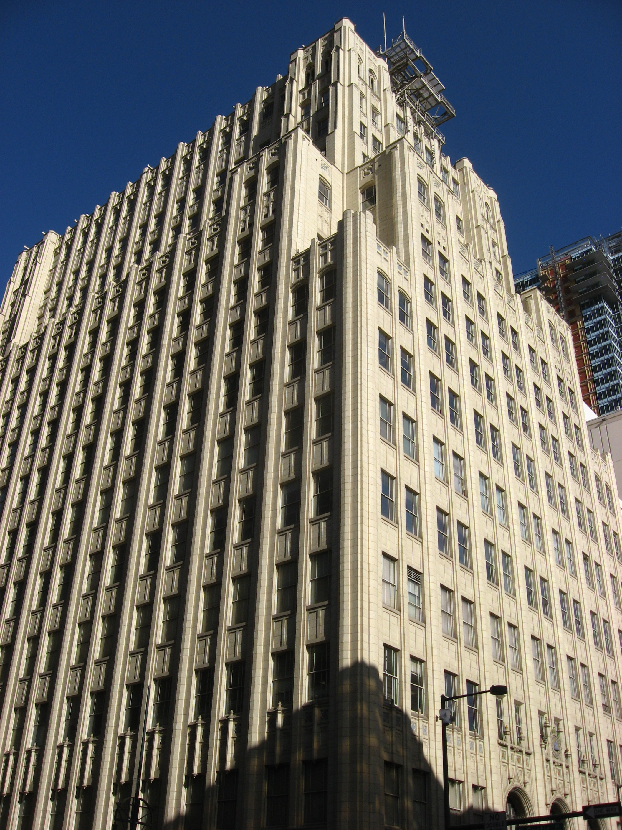 Three-quarters view of the Telephone Building, located at the eastern corner of the intersection of Curtis and Fourteenth Streets in Denver, Colorado, United States. Built in 1929, it was the headquarters of Mountain States Telephone and Telegraph Company (now Qwest) until 1984. The building is listed on the National Register of Historic Places.